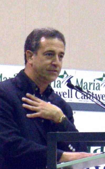 U.S. Senator Russ Feingold (D-WI) speaking at Senator Maria Cantwell's (D-WA) campaign rally, Ravenna-Eckstein Community Center, Seattle, Washington.